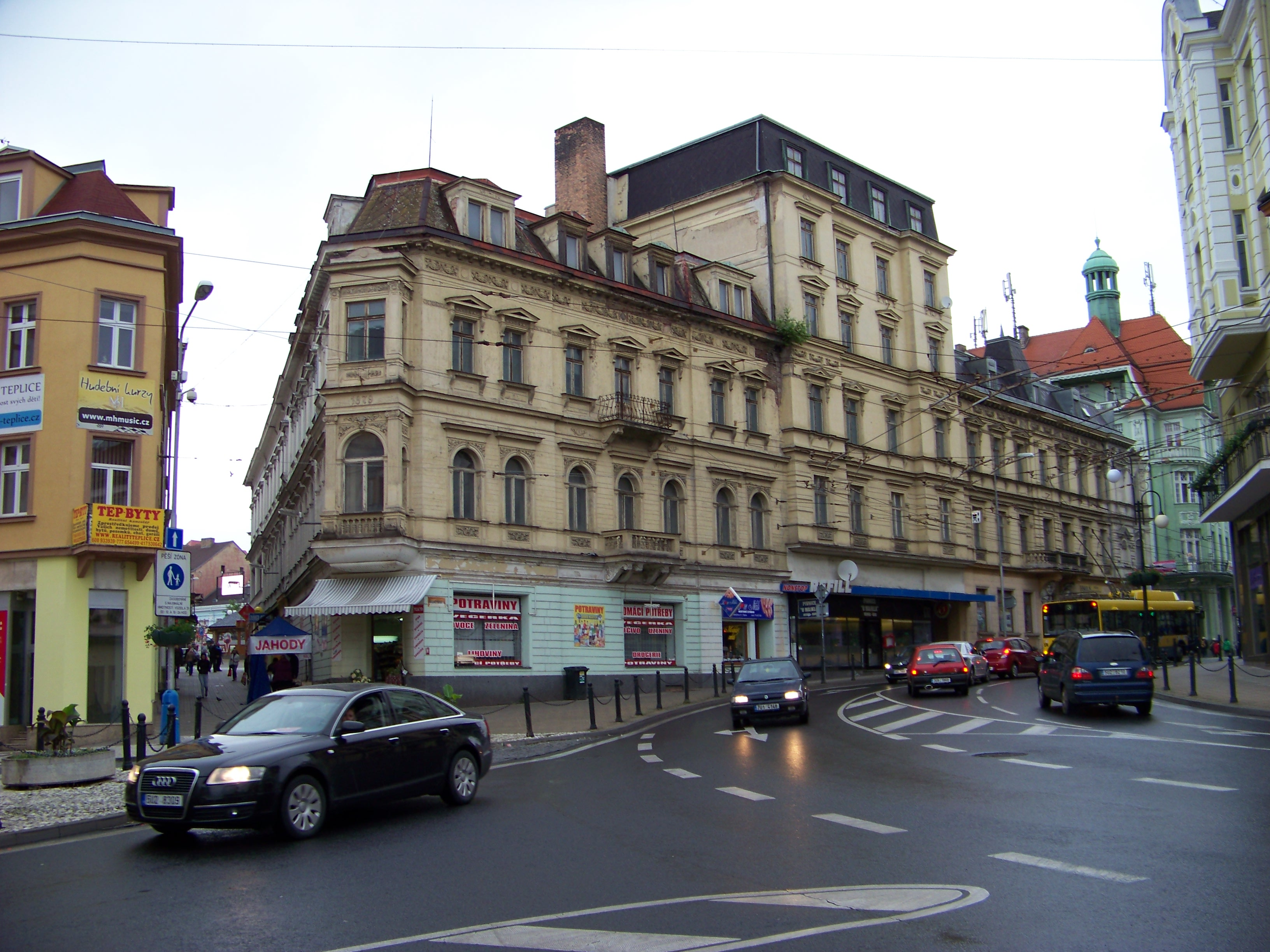 Teplice, Teplice District, Ústí nad Labem Region, Czech Republic. Masarykova třída, U Krupské brány 492/2.